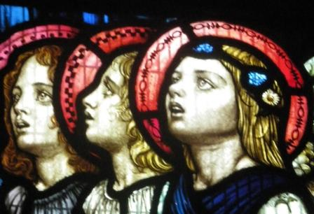 Detail from stained glass window in St James Church, Warter, East Riding of Yorkshire, England - a memorial to Gerald Valerian Wilson the son of Lord and Lady Nunburnholme.